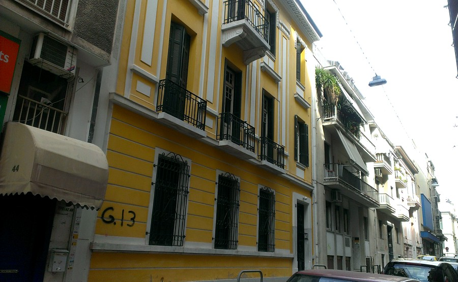 siptia-2